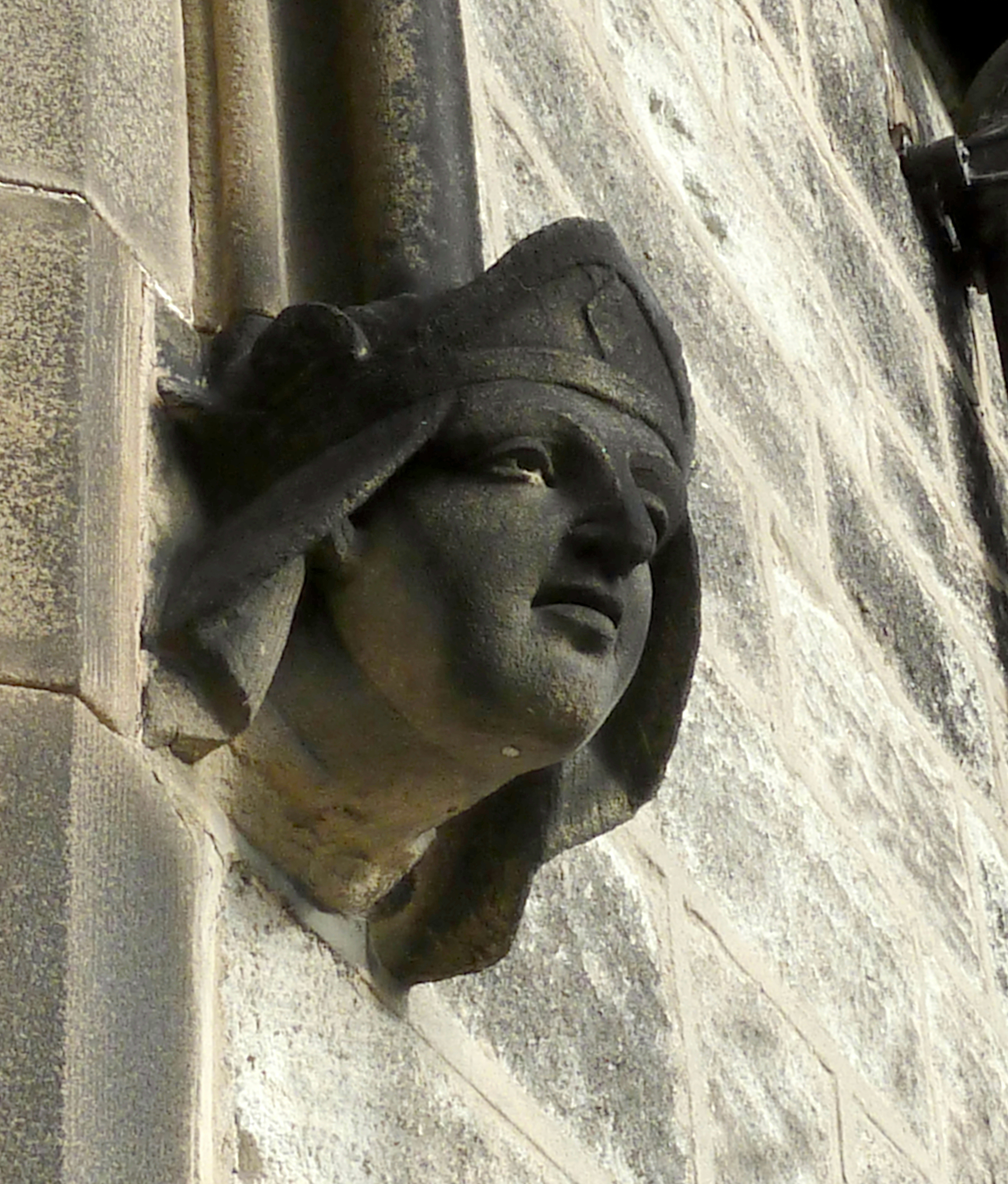 St Ricarius Church, Aberford, West Yorkshire, England. Originally a medieval church, of which only the tower remains. The nave was mostly rebuilt in 1862 to a design by Anthony Salvin, but it includes an 1830 east wall. The stone carving on the building is by Mawer and Ingle, who also carved the pulpit.